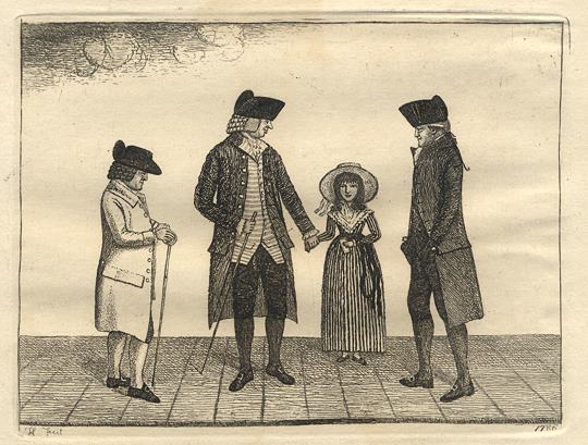 Group portrait, with the surgeon James Rae to the left, in conversation with Dr. William Laing and Dr. James Hay, later Sir James Hay of Smithfield.